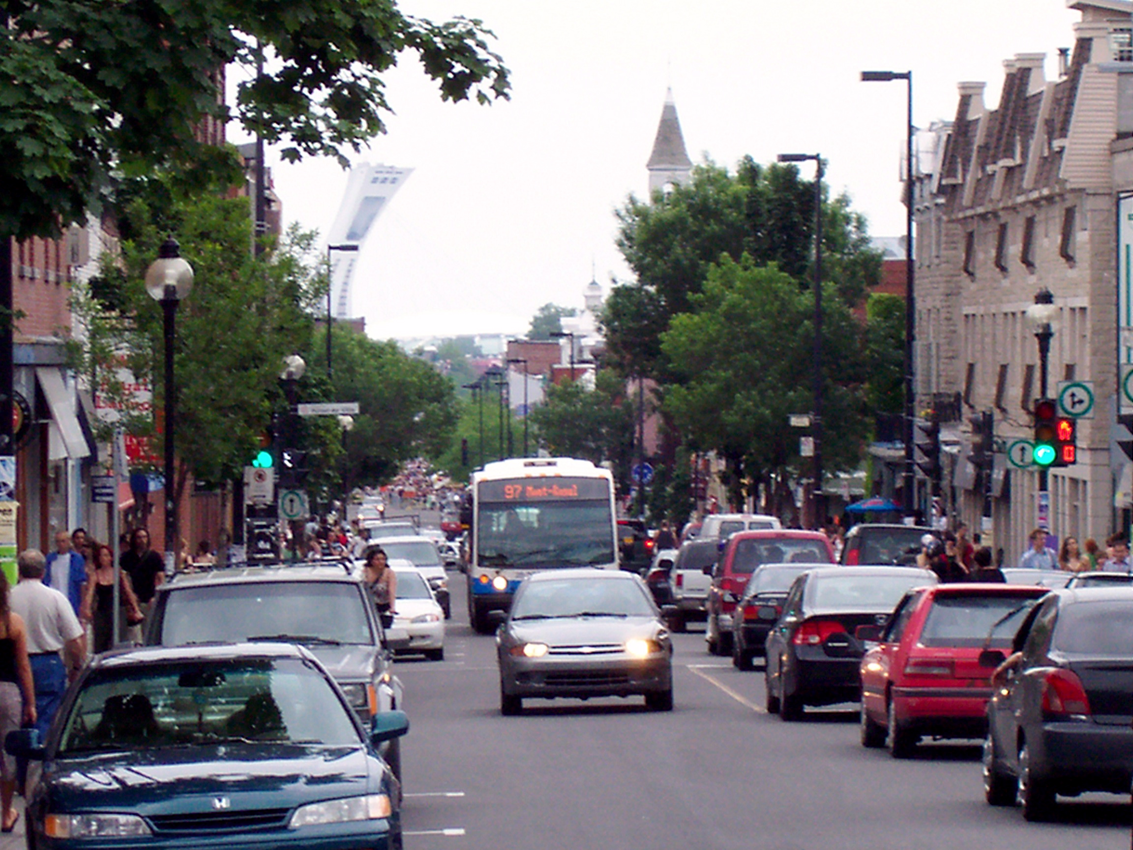 Mount Royal facing Olympic tower